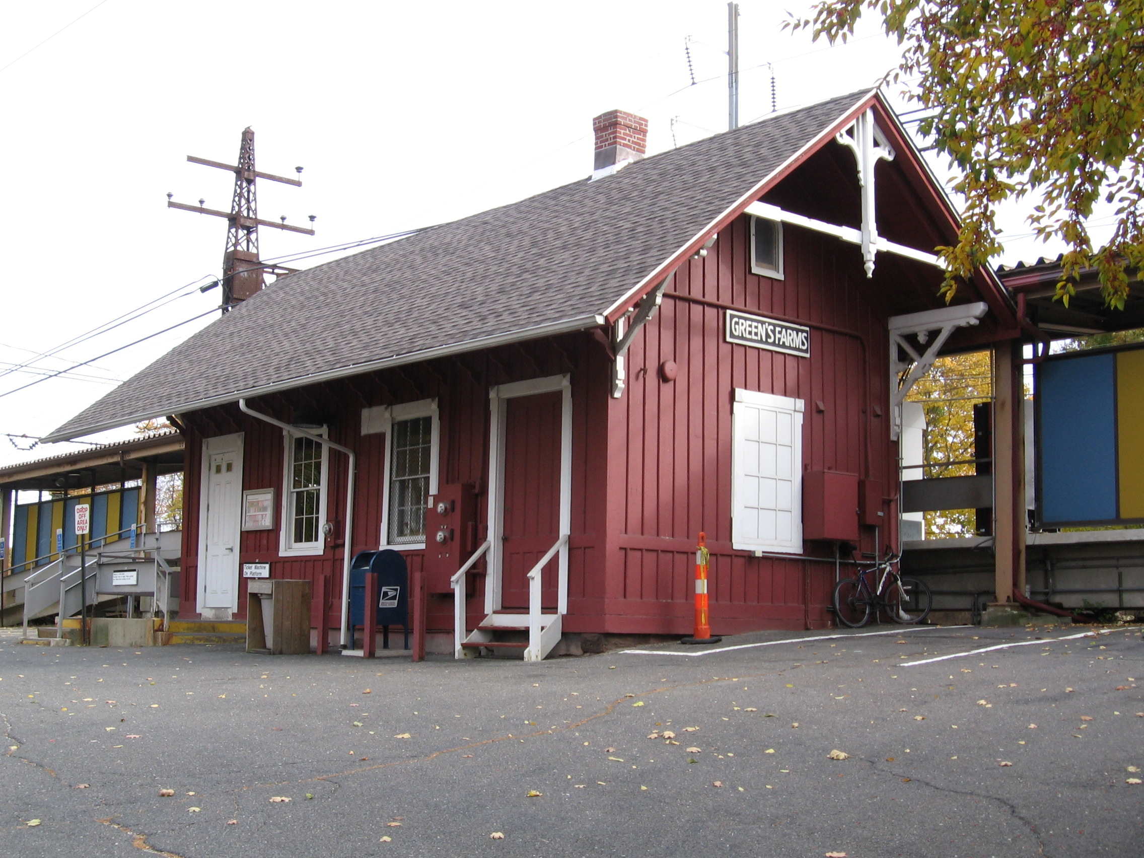 Station house, seen from northwest, Green's Farms (Metro-North station) in the Greens Farms section of Westport, Connecticut. The station has an extensive parking lot, but the station house is one of the smallest on the New Haven Line of Metro-North.